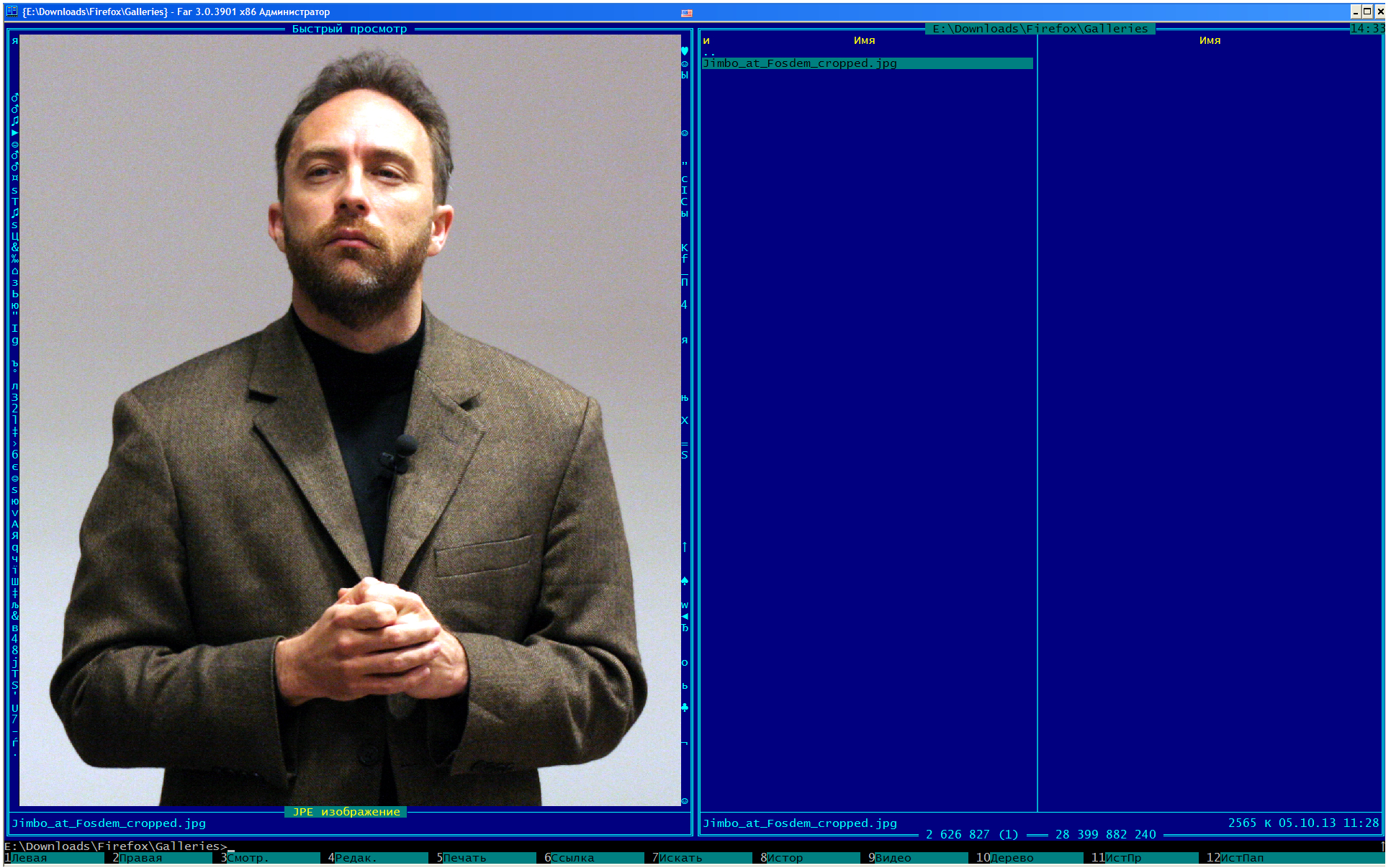 Viewing a graphic file in Far Manager window with Multimedia Viewer